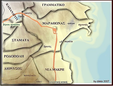 Map of Marathonas. Attica, Greece